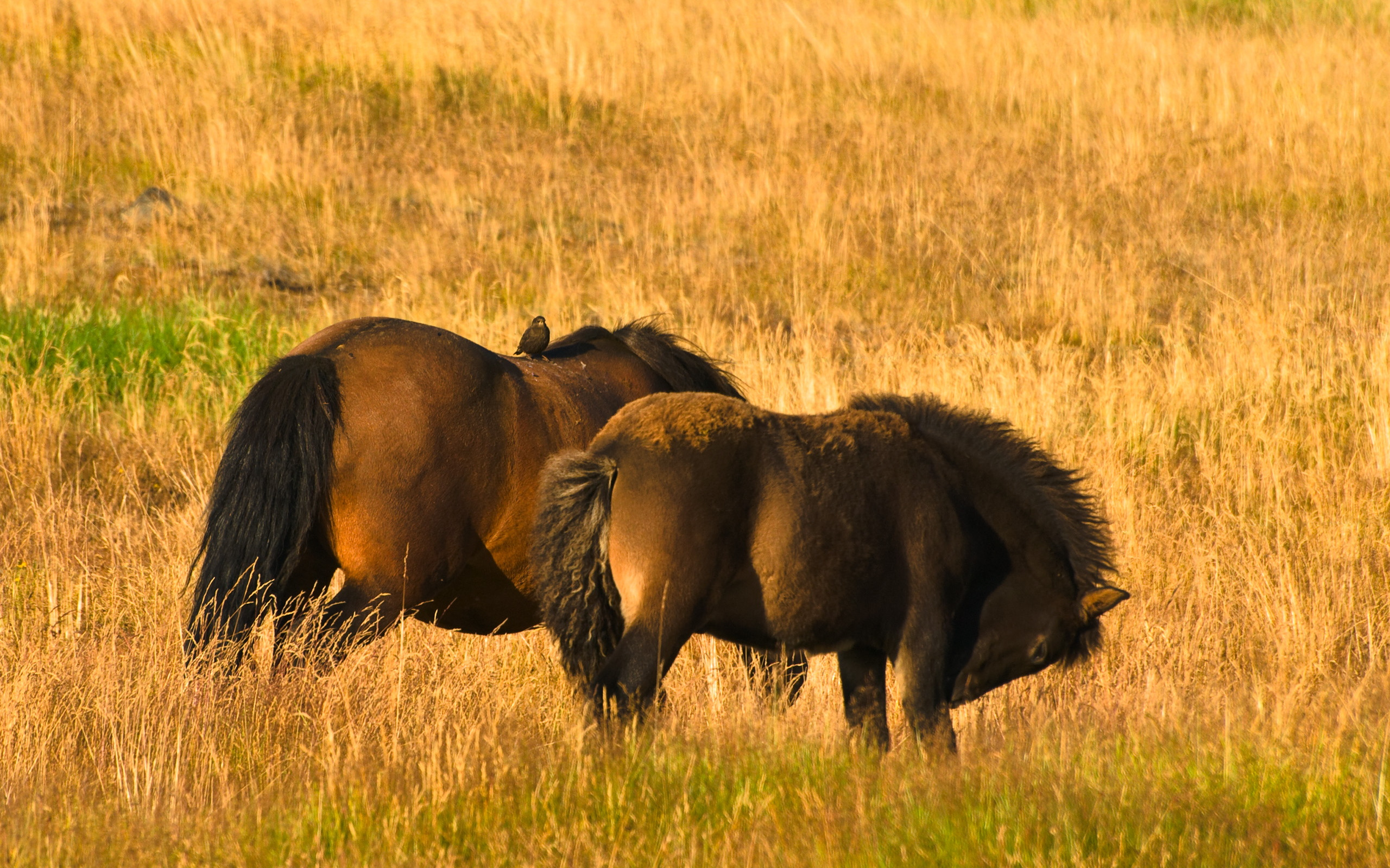 Icelandic horses, one with a juvenile Common Starling perched on its back